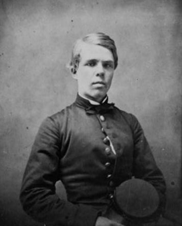 John Rodgers Meigs, son of U.S. Army Quartermaster Montgomery C. Meigs, upon his commissioning as a First Lieutenant in the Corps of Engineers, United States Army, in Jun 1863. John Rodgers Meigs graduated at the top of his class at the U.S. Military Academy at West Point.